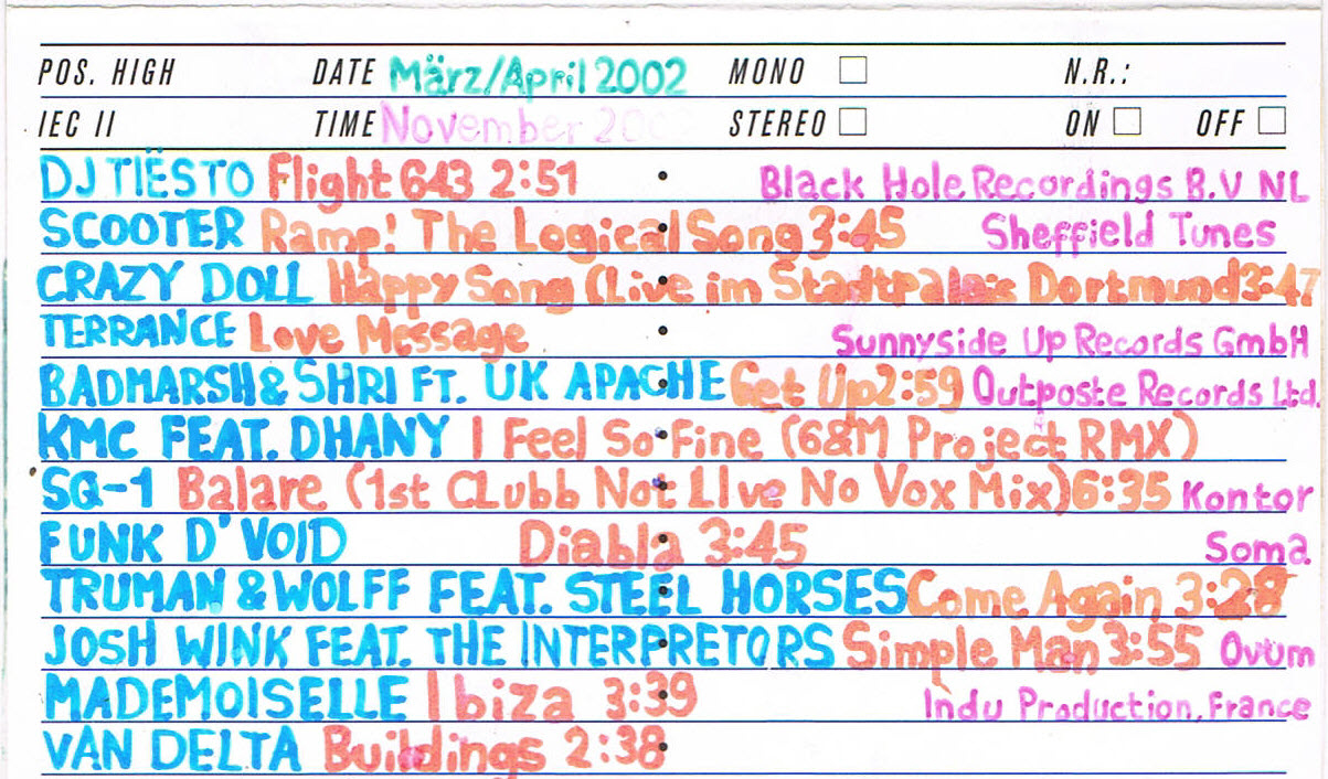 Cassette tracklist, compiled by Saviour1981